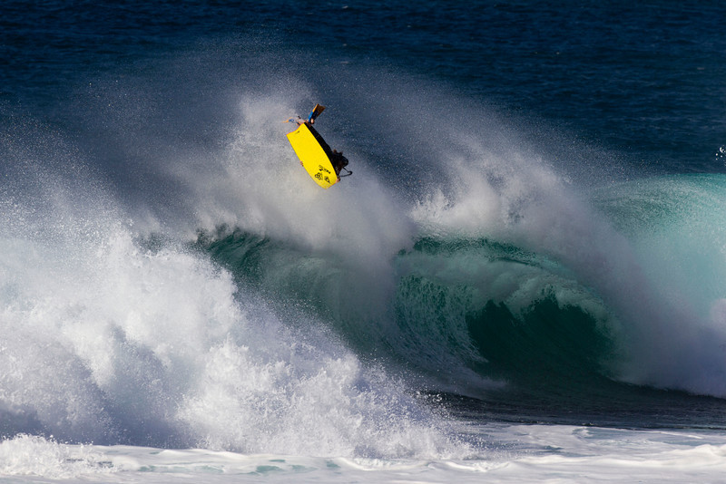 Michael Novy doing an air reverse 360 at Backdoor on the island of Oahu, Hawaii.